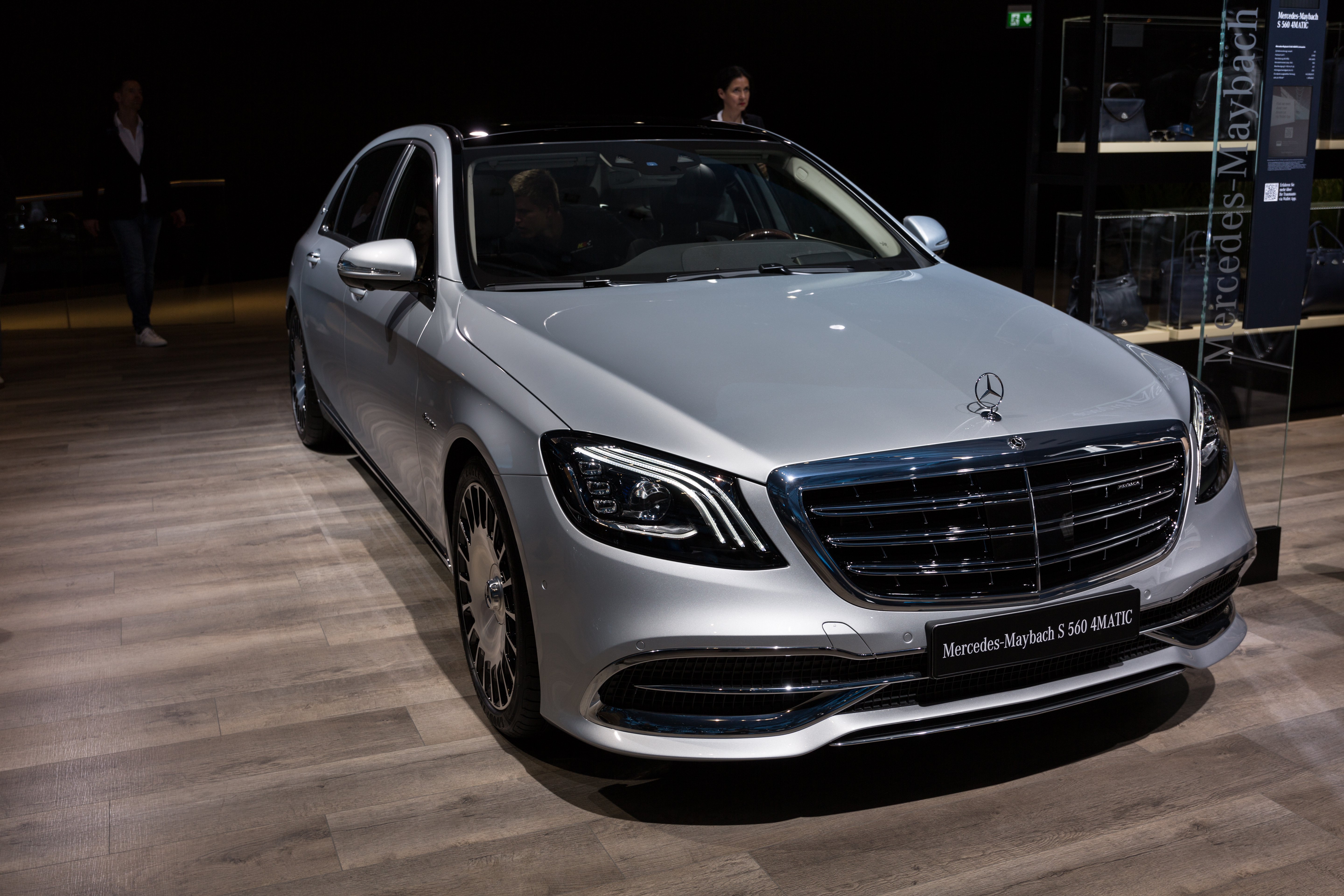 Mercedes-Maybach S 560, IAA 2017